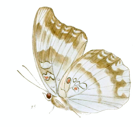 Dophla evelina